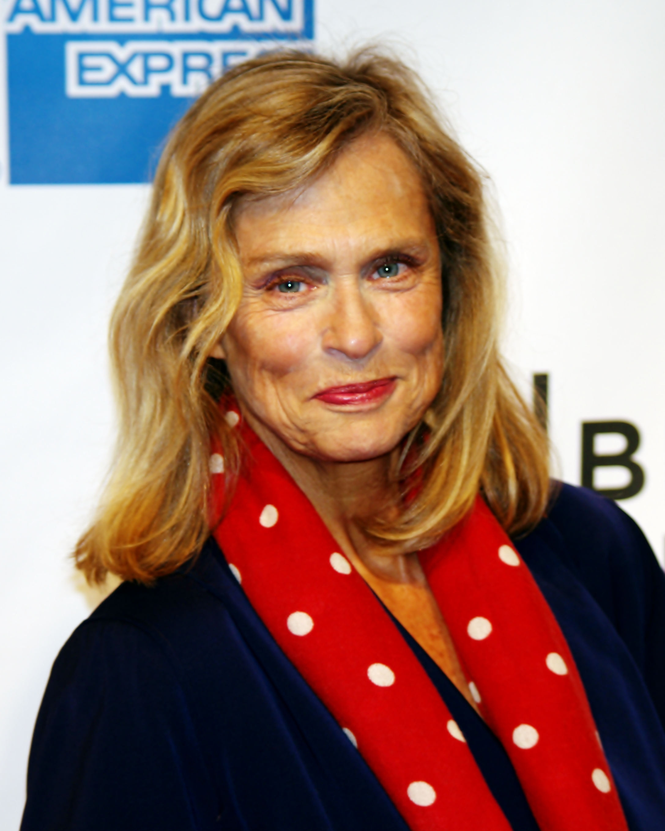 Lauren Hutton attending the premiere of The Union at the Tribeca Film Festival.